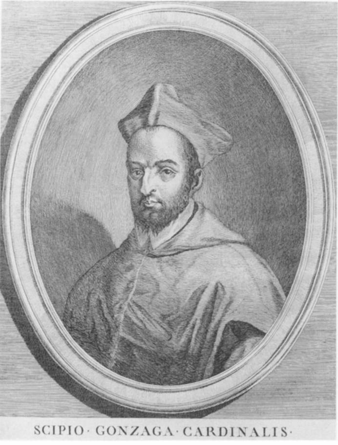 Cardinale Scipione Gonzaga. 16th century engravng in the public domain by virtue of age.